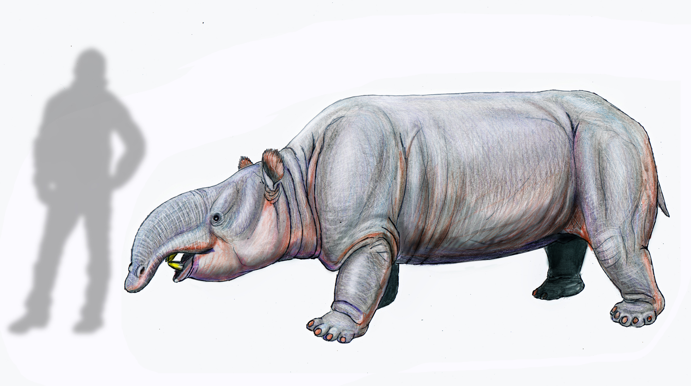 Pyrotherium romeroi, xenungulate mammal from Early Oligocene of Argentina